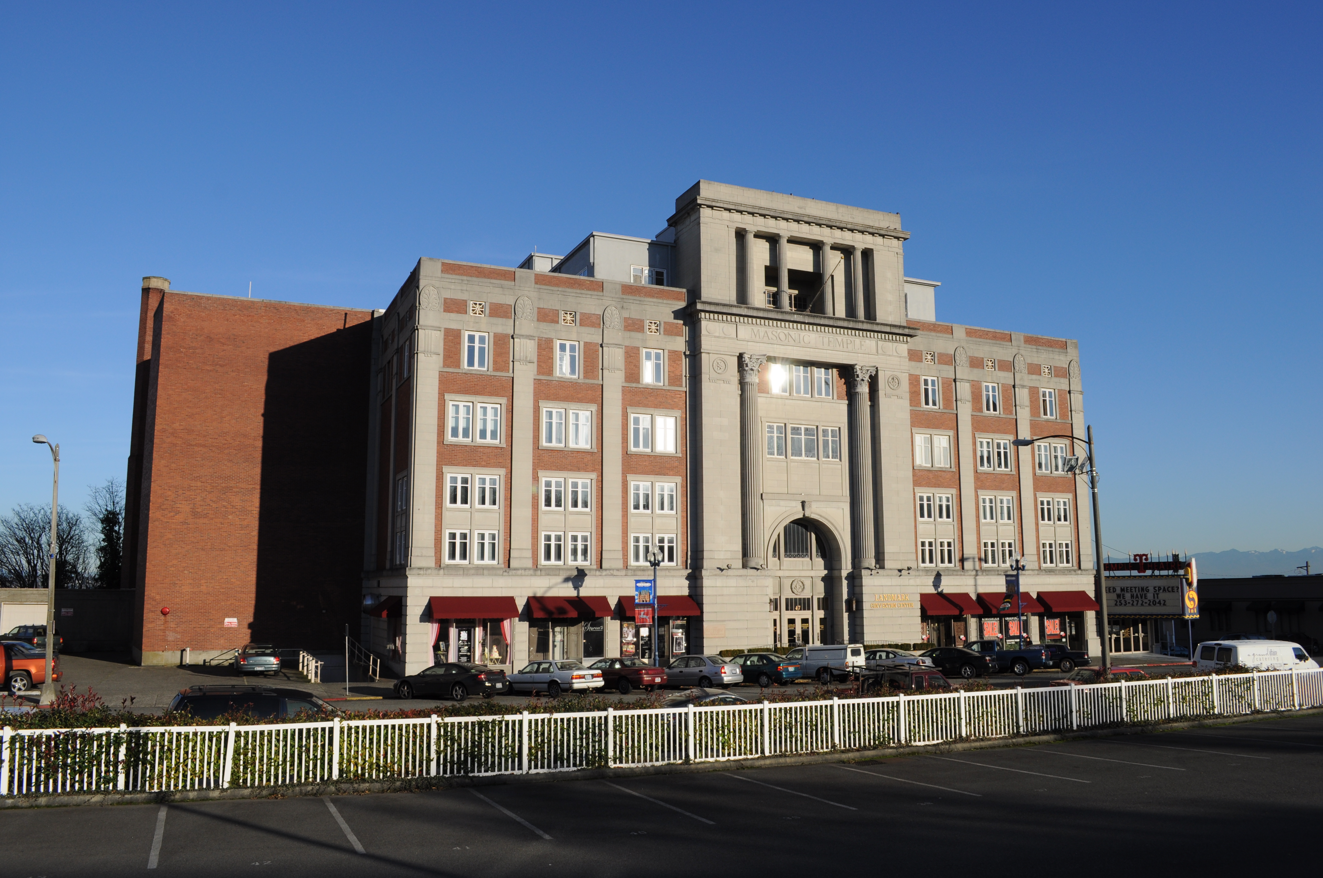 Masonic Temple Building-Temple Theater, Tacoma, Washington. Listed on the National Register of Historic Places.